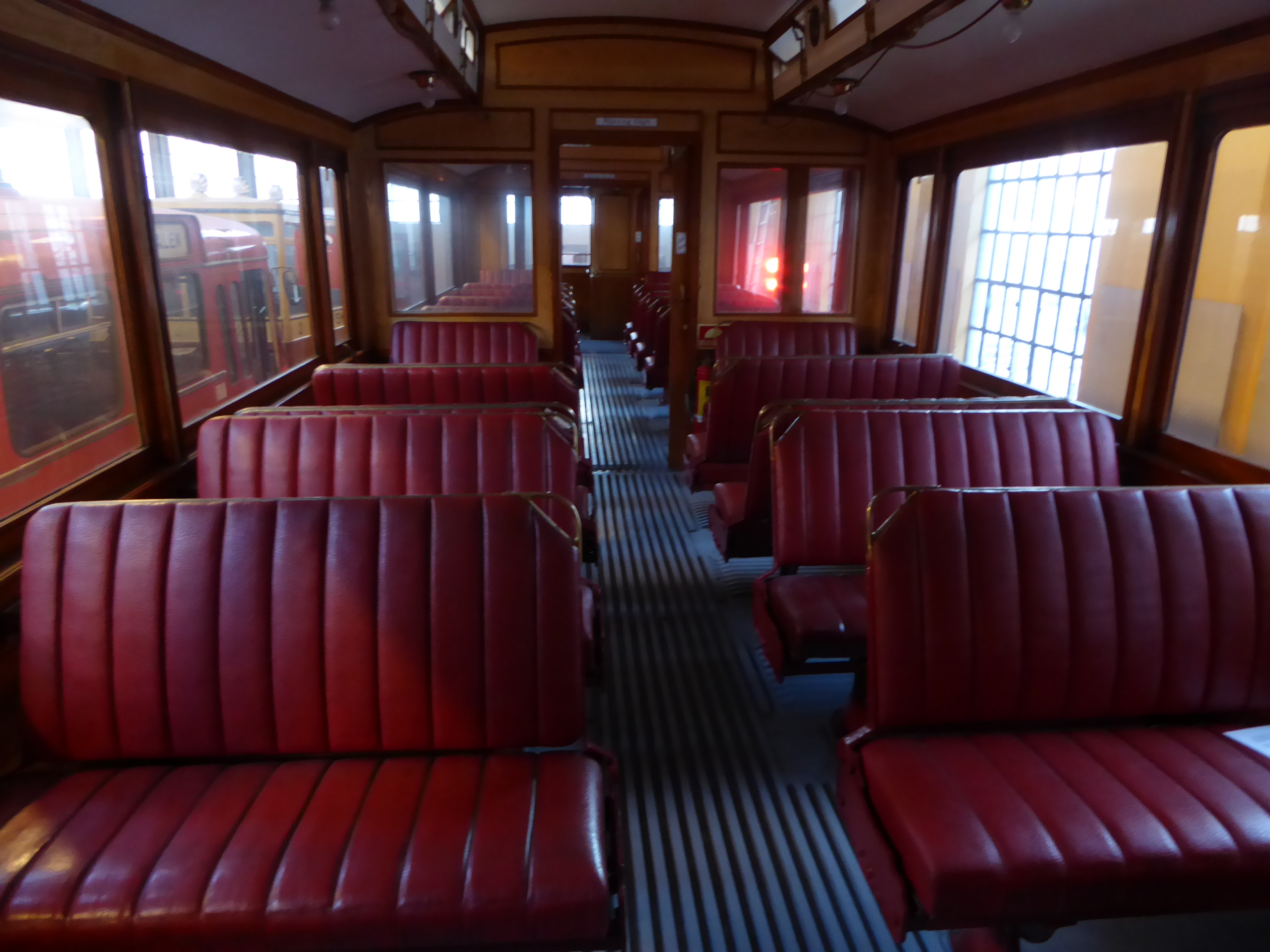 Tunnelbane car HKB 42 of Holmenkolbanen from 1917 at Sporveismuseet in Oslo.